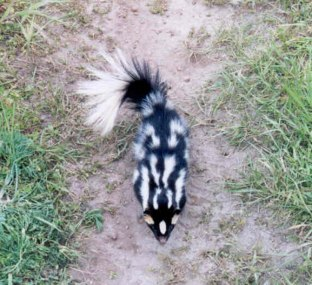 Western Spotted Skunk (Spilogale gracilis)